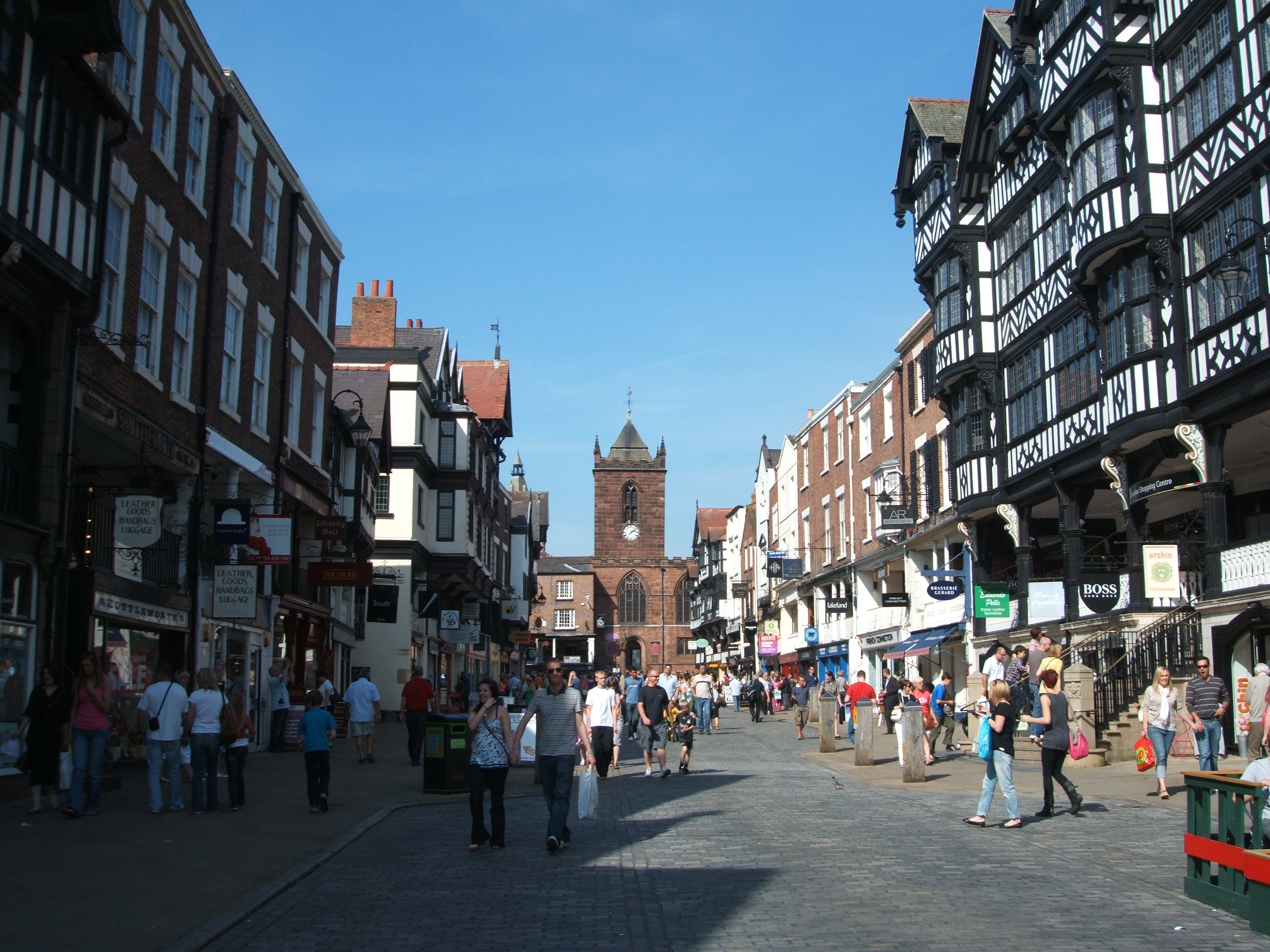 Bridge Street, Chester